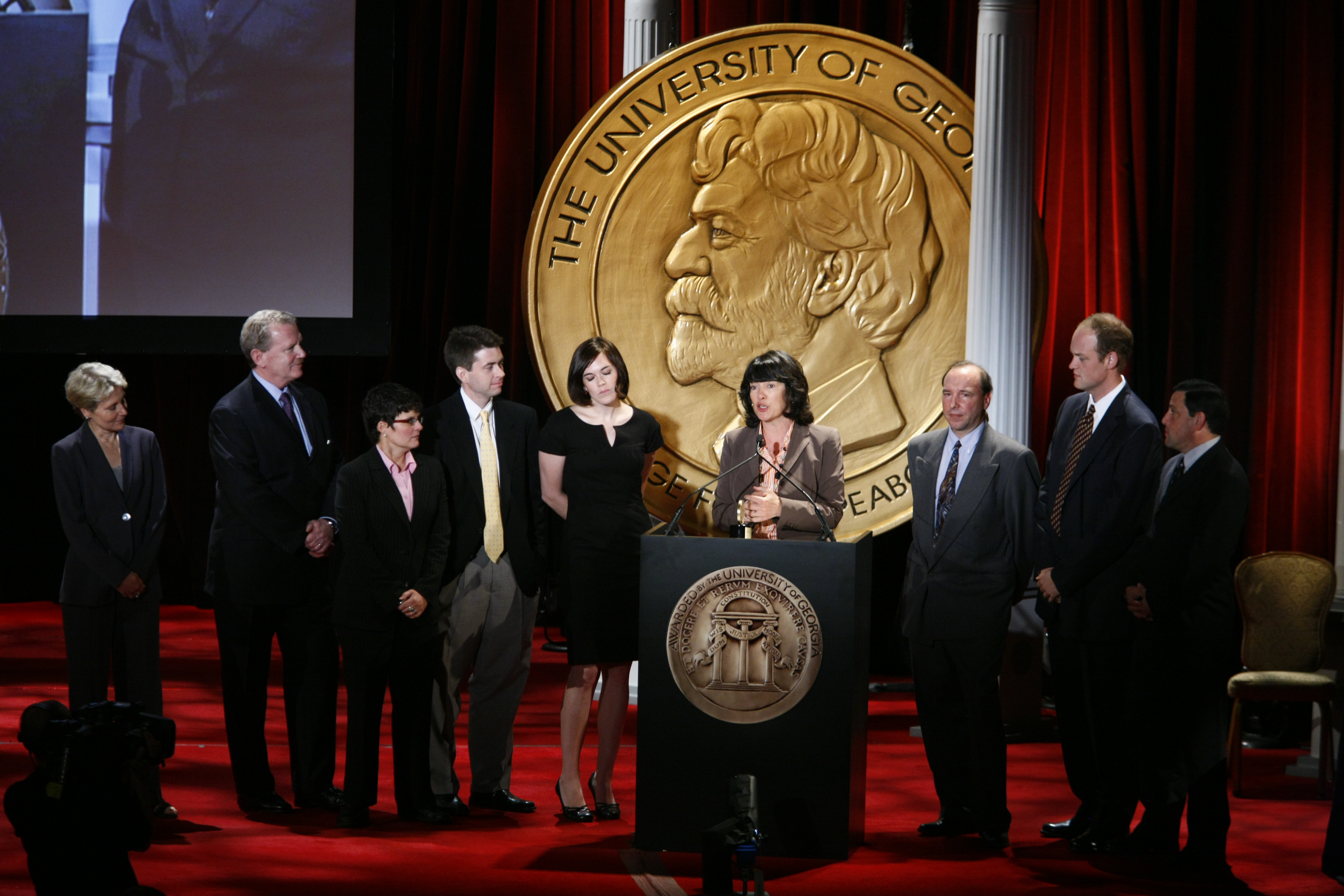 PHOTO CREDIT: ANDERS KRUSBERG / PEABODY AWARDS Christiane Amanpour and her team 67th Annual Peabody Awards Luncheon Waldorf=Astoria Hotel New York, NY USA June 16, 2008